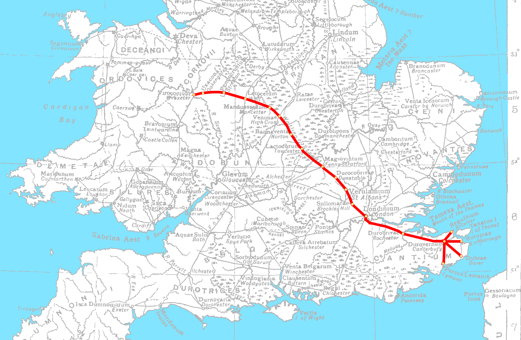 A map of Watling Street overlaid on the 1911 Encyclopædia Britannica map of Roman Britain